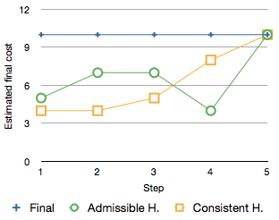 A comparison of the estimated final cost of an optimal path through a graph by two different heuristic evaluation functions.